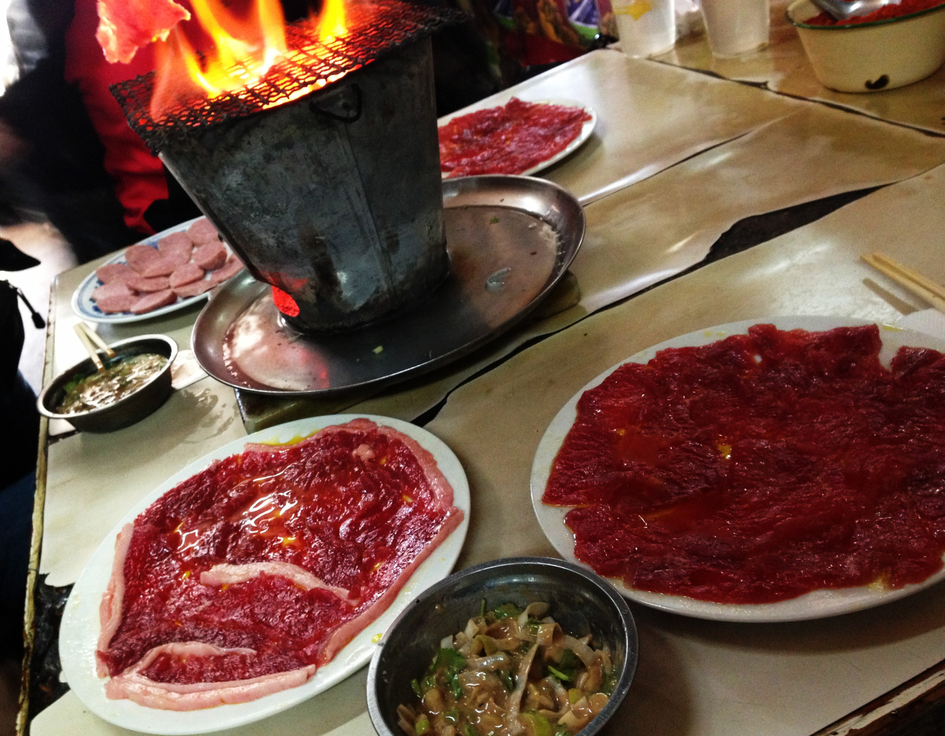 Mud Brazier BBQ (泥炉[ni lu]烧烤) is an Korean-Chinese style BBQ which is only exclusively in Shenyang.